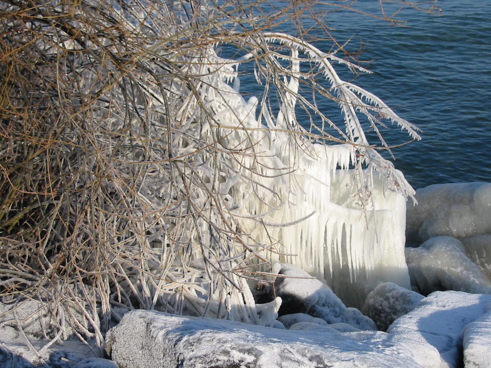 Ice at the Lake Constance near Arbon, Switzerland.